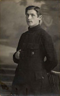 Gustav Klutsis in 1915